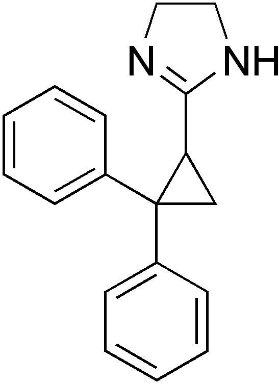 chemical structure of cifenline